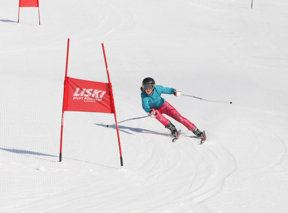 Ieva Januskeviciute of the Kalnu Ereliai Ski Team from Vilnius, Lithuania trains giant slalom (GS) in Tärnaby, Sweden